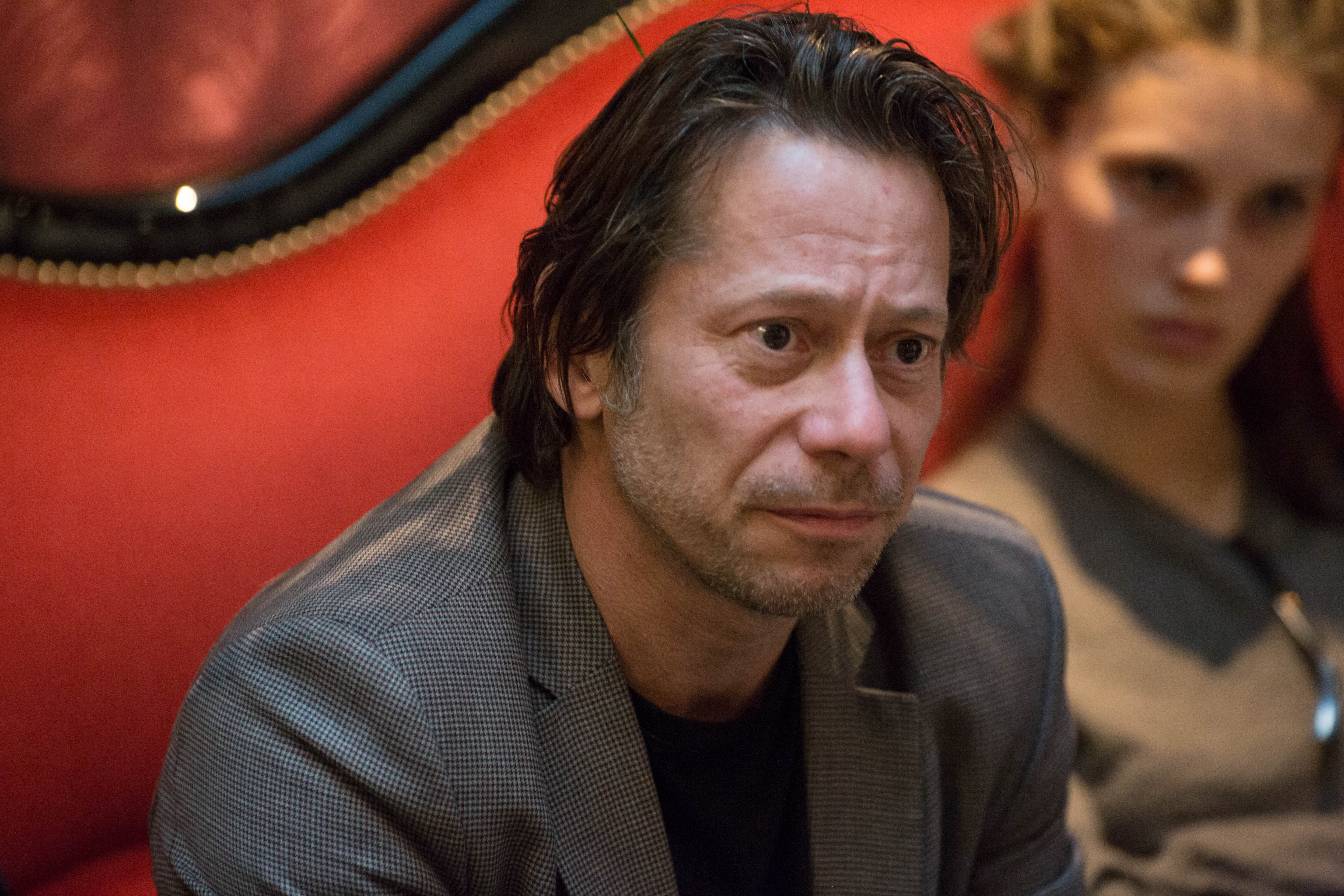 Mathieu Amalric at grand hotel opéra, Toulouse, France